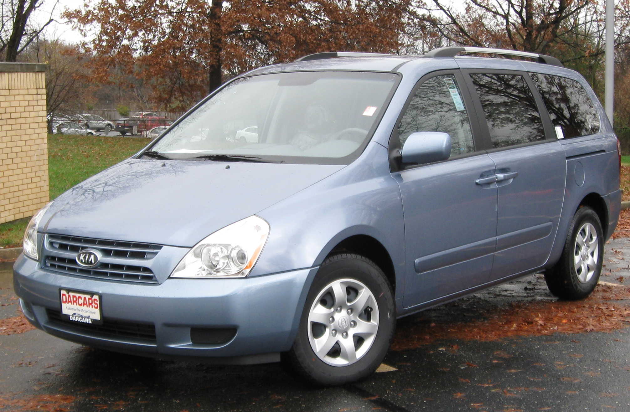 2009 Kia Sedona photographed in Marlow Heights, Maryland, USA.